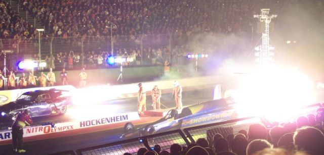 Nitrolympics JetDragster